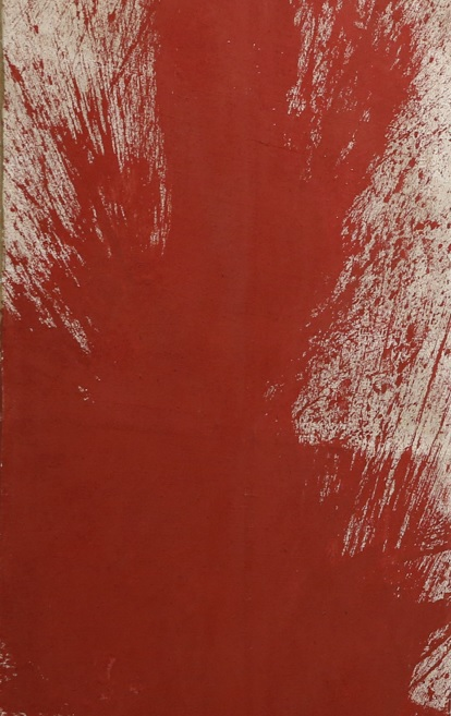 Hermann Nitsch und Bertram Karl Steiner in der Nitsch Foundation (cropped Image)